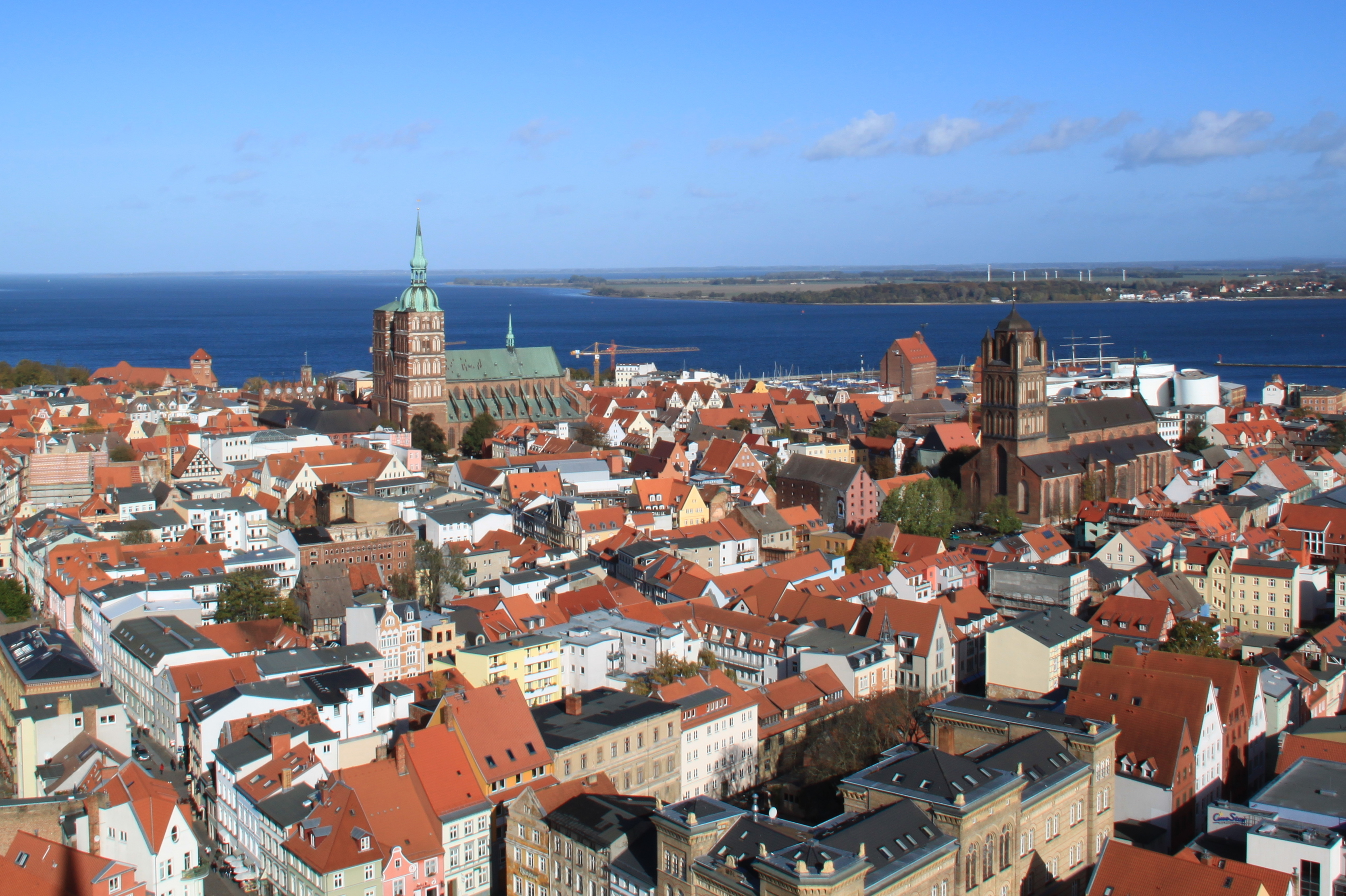 Stralsund - Old Town, view from the tower of St. Mary's church